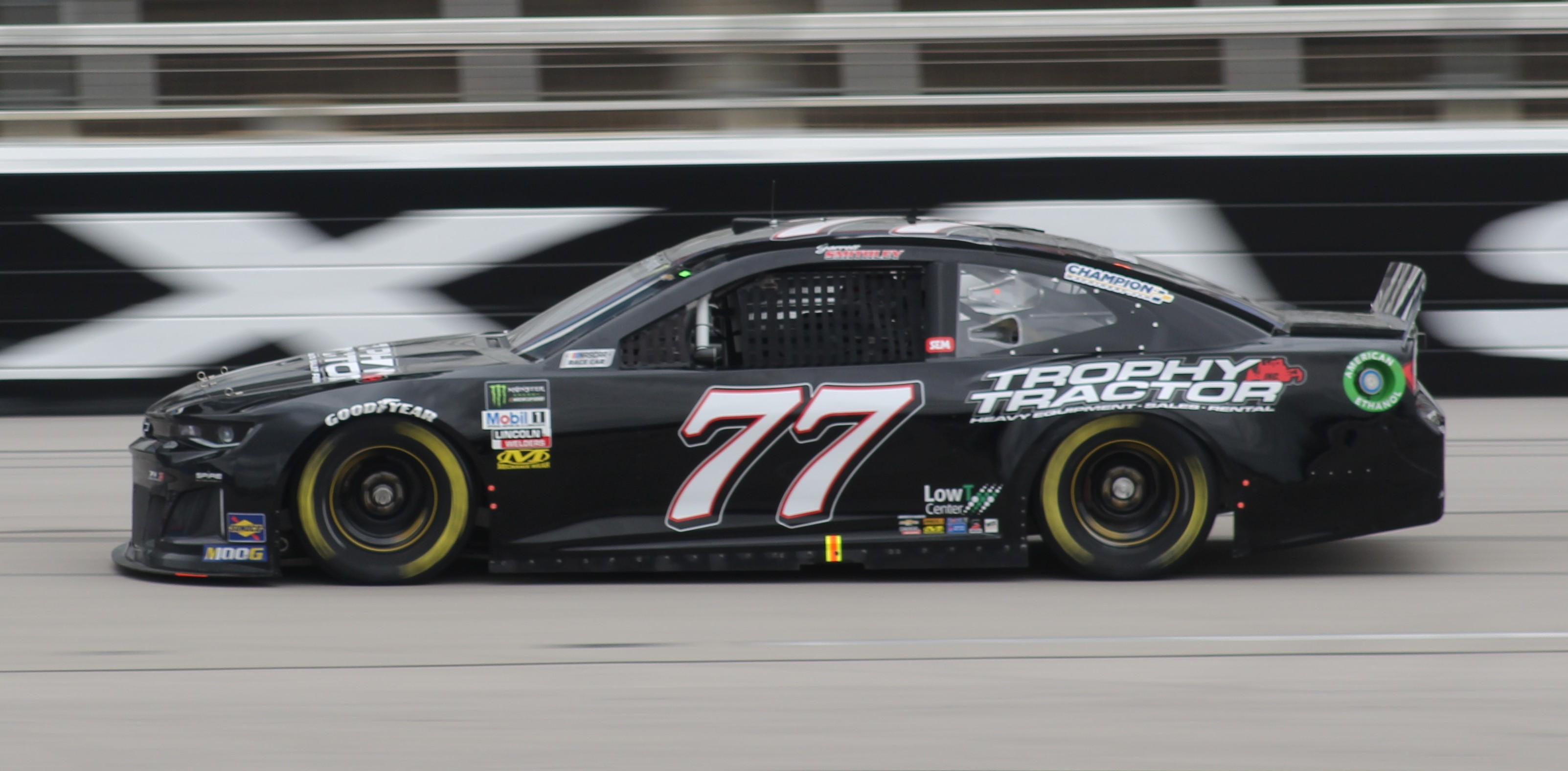 2019 O'Reilly Auto Parts 500